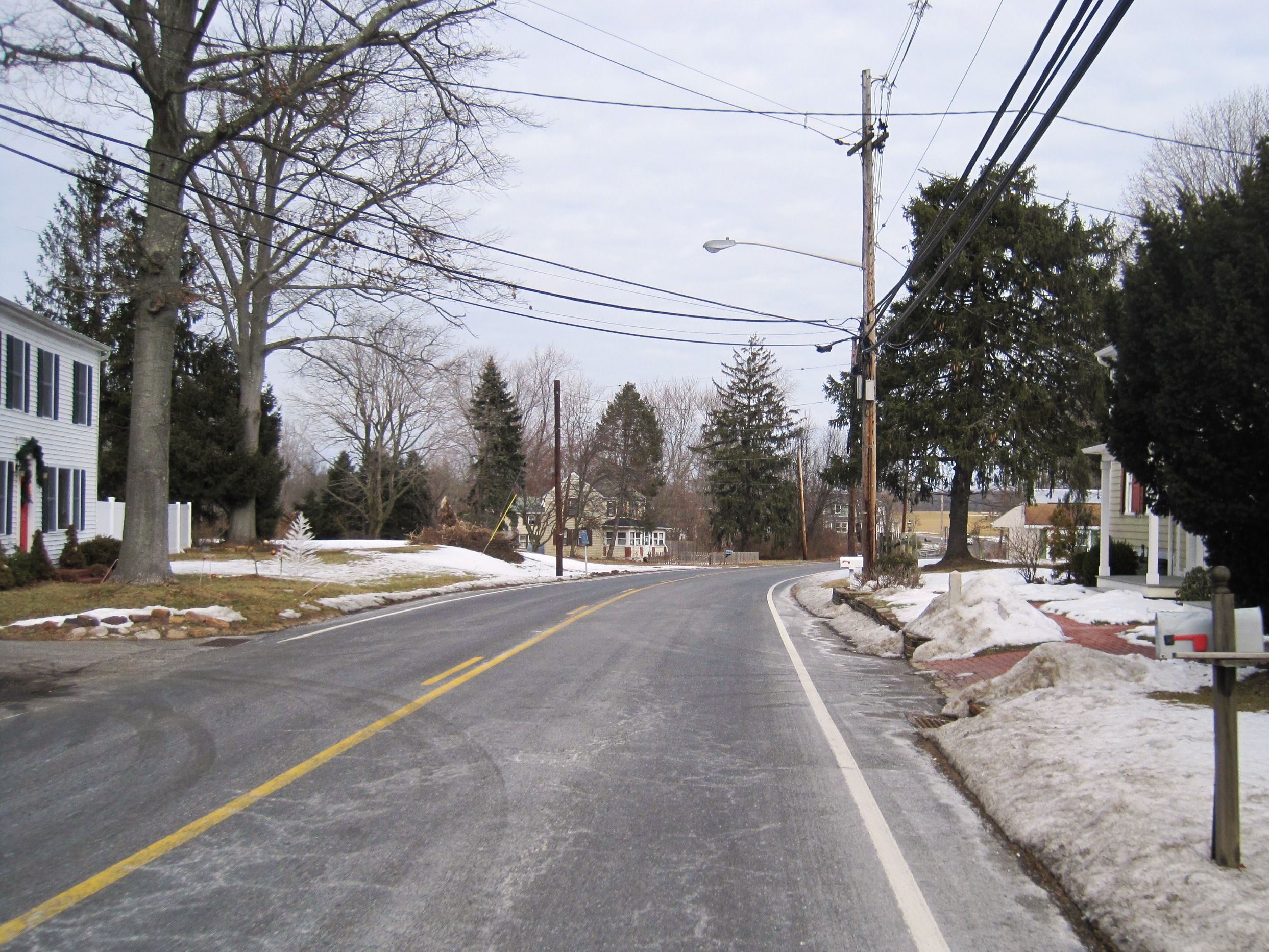 Photo of an unincorporated section of Robbinsville and Upper Freehold townships, New Jersey known as New Sharon. The photo was taken on northbound Old York Road (County Route 539)